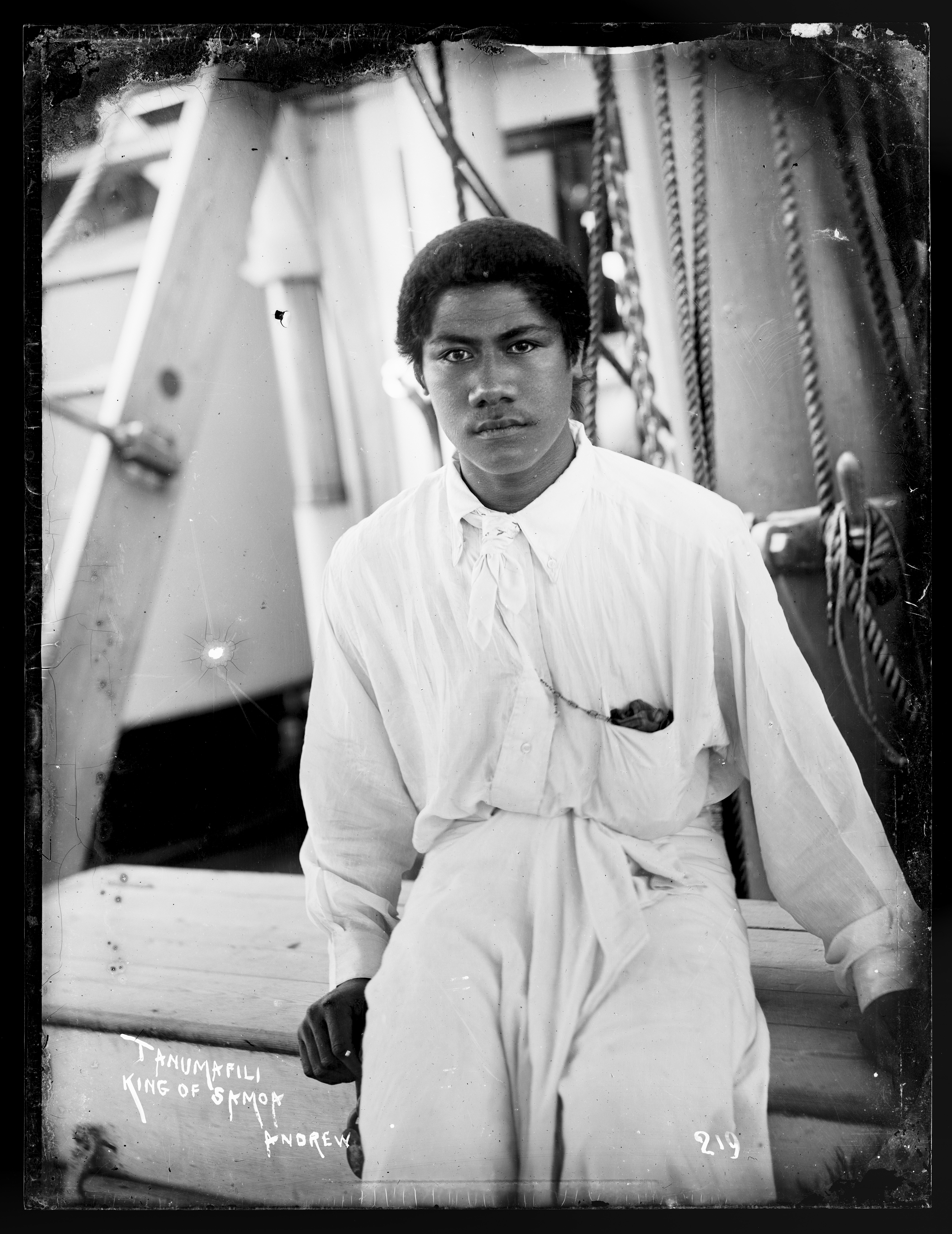 Susuga Malietoa Tanumafili I (1879–1939). Photo taken on board a British warship at Apia, 1899